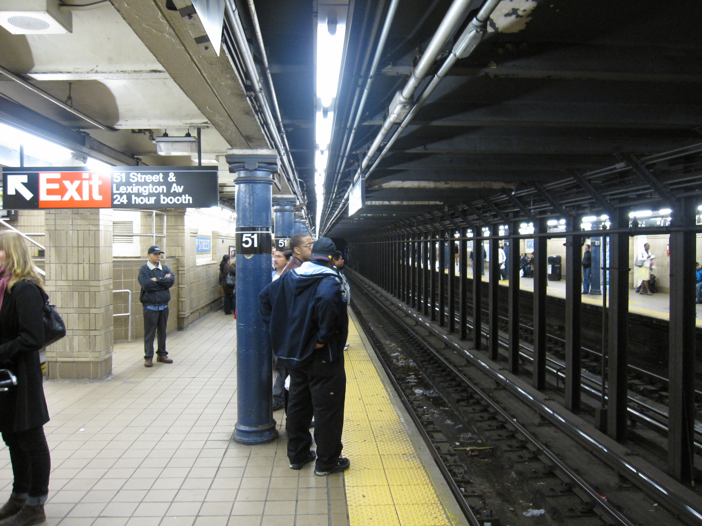 51st Street (IRT Lexington Avenue Line)